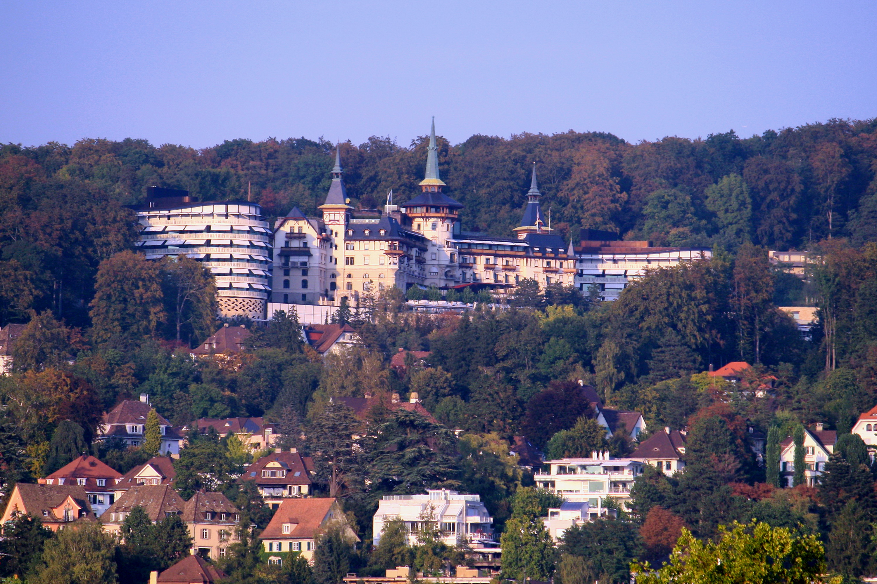 Grand Hotel Dolder on Adlisberg respectively in Zürich-Hottingen (Switzerland), as seen from ZSG motorship Albis.